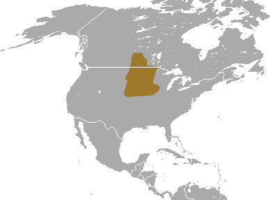 Prairie Shrew (Sorex haydeni) range